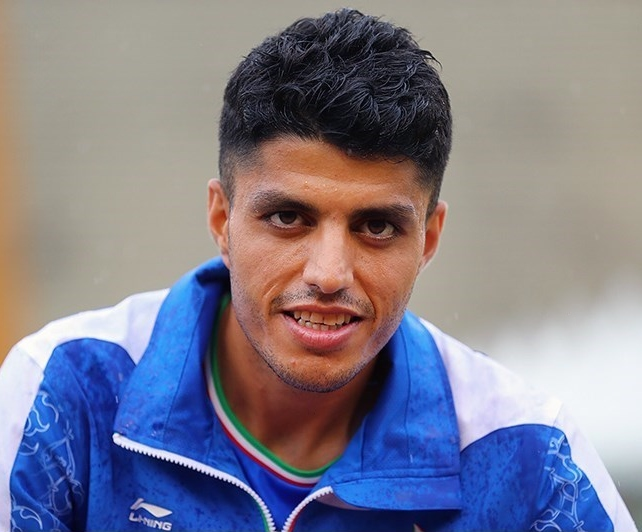 Athletics at the 2016 Summer Olympics – Men's marathon